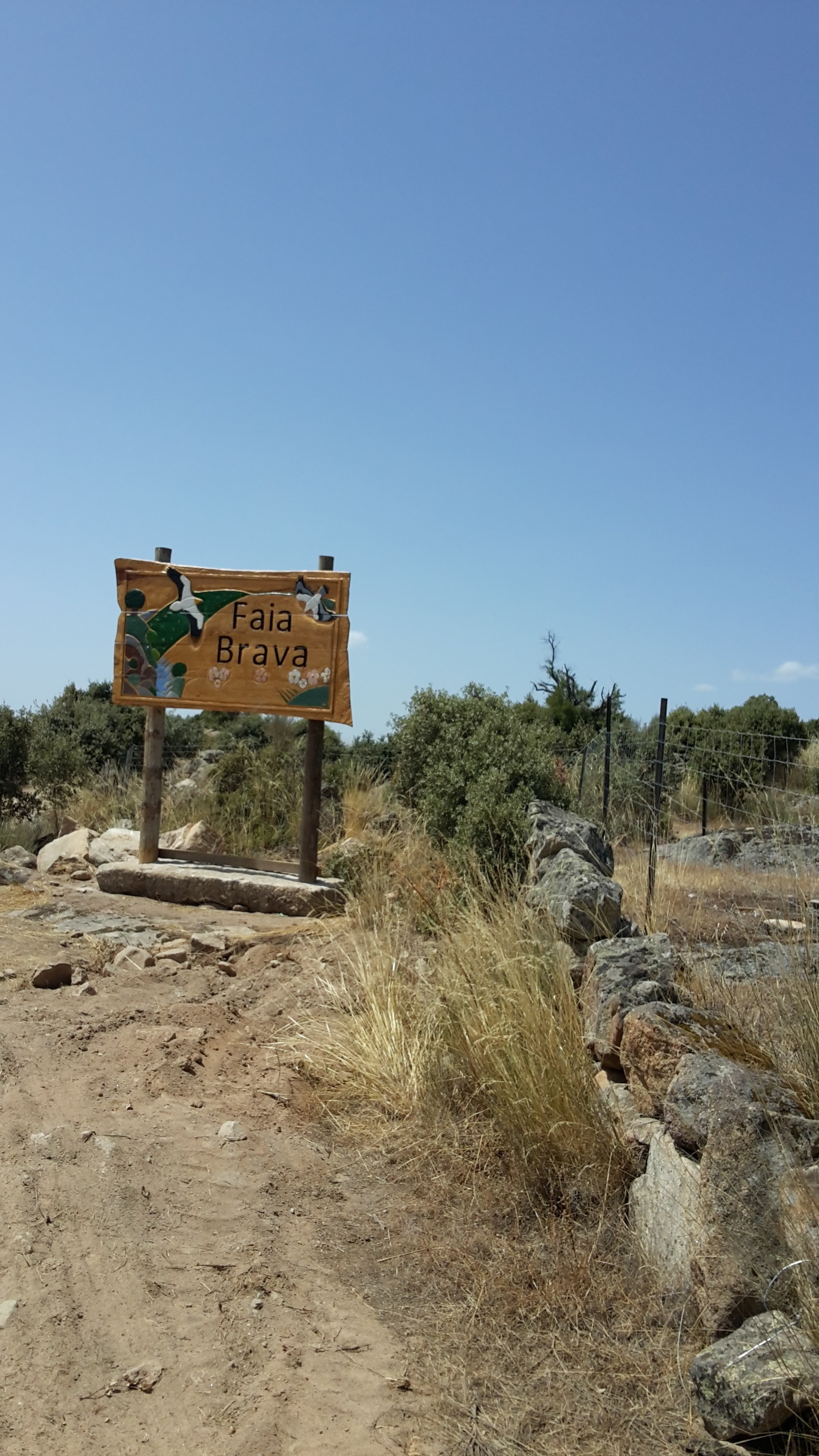 Photo of the main entry of Reserva da Faia Brava, Figueira de Castelo Rodrigo, Portugal